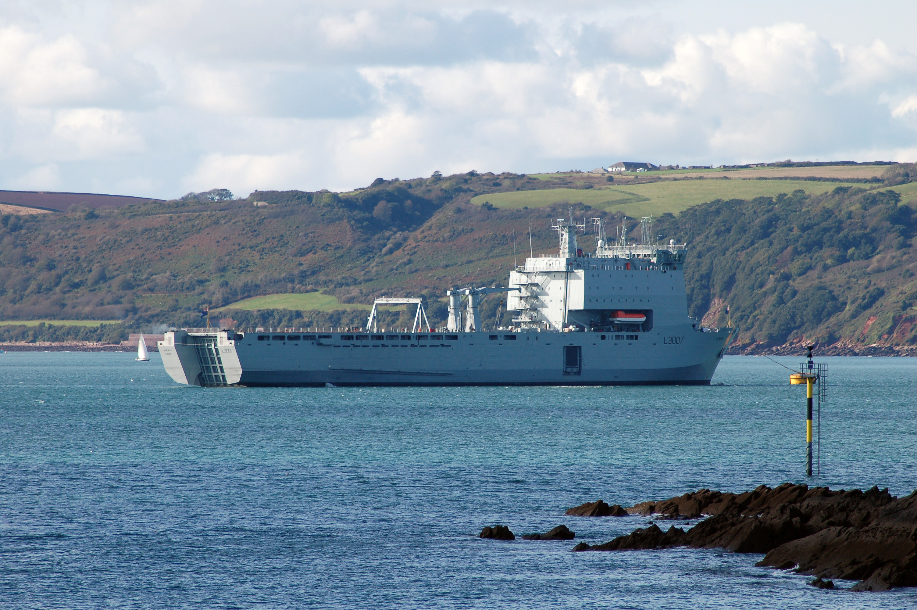 RFA Lyme Bay at anchor in Plymouth Sound, behind the breakwater.